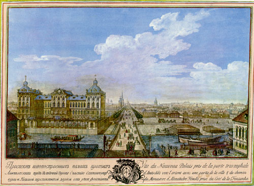 Mikhail Makhaev. View of the Anichkov Bridge and Palace in 1753.